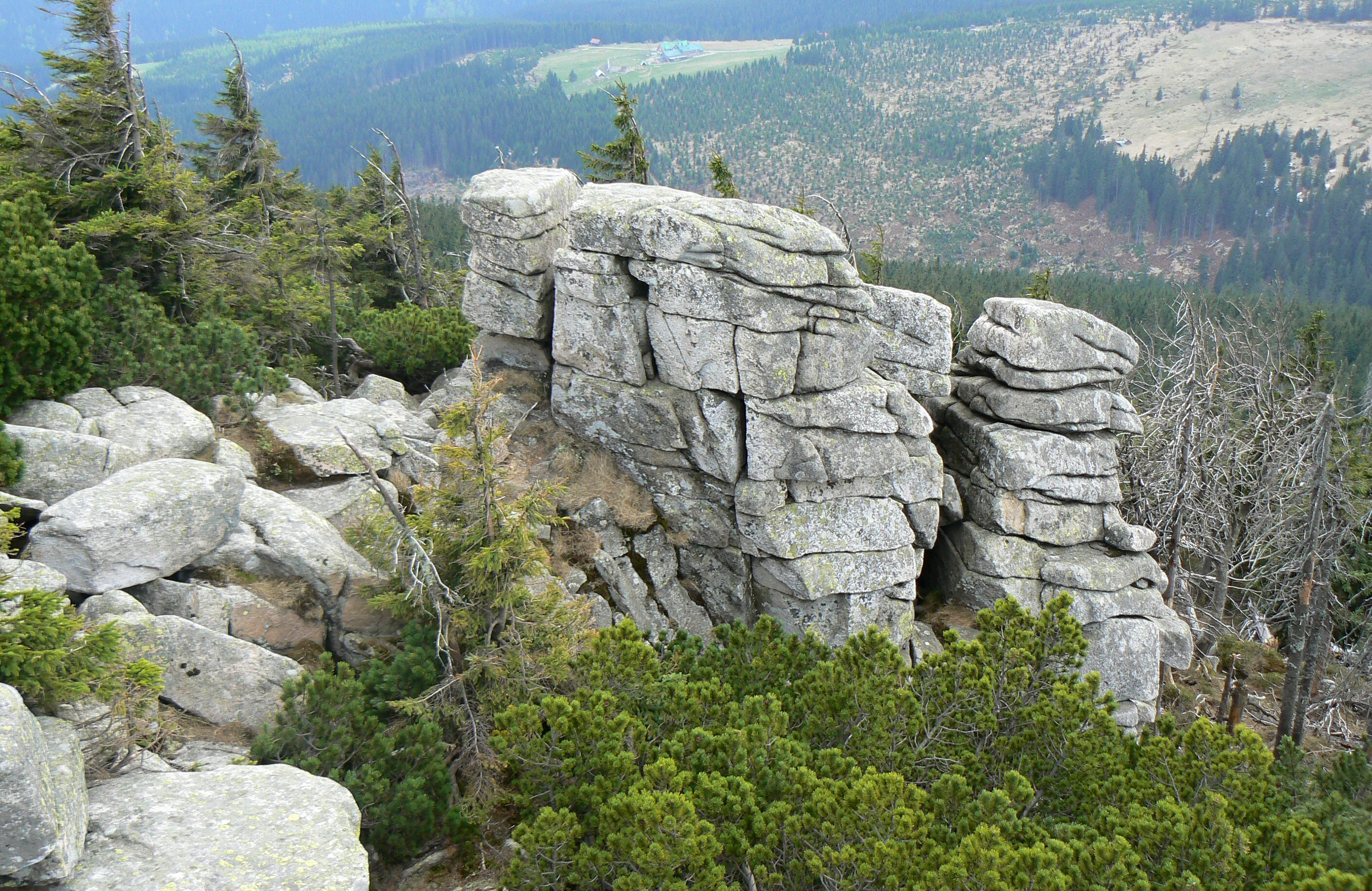 Ptači kameny in Krknoše (on Giant Mountains) national park